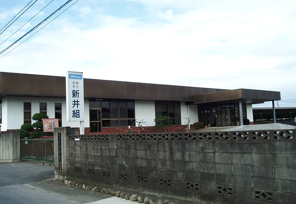 The headquarters of ARAIGUMI Co., Ltd., a construction company in Kumagaya, Saitama Prefecture, Japan.